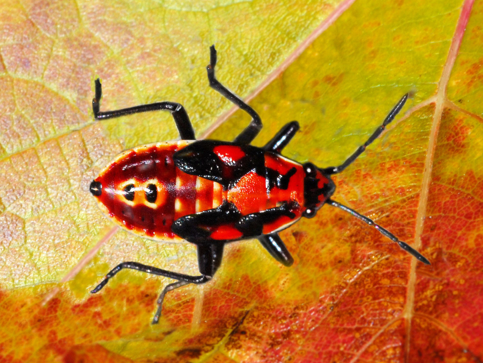 Spilostethus pandurus, nymph. Pragelato, Italy